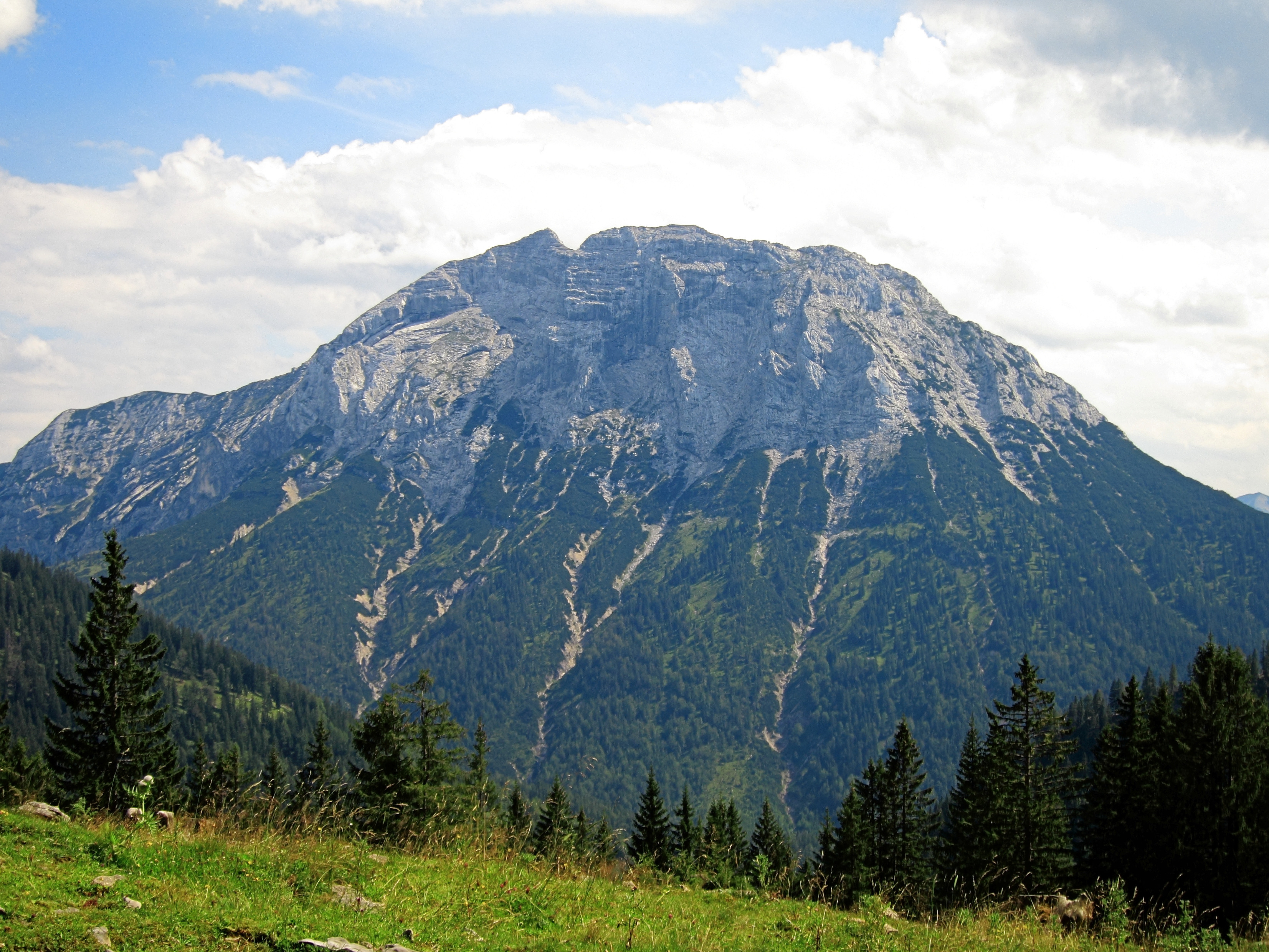 Guffert northside as seen from the Blaubergkamm.